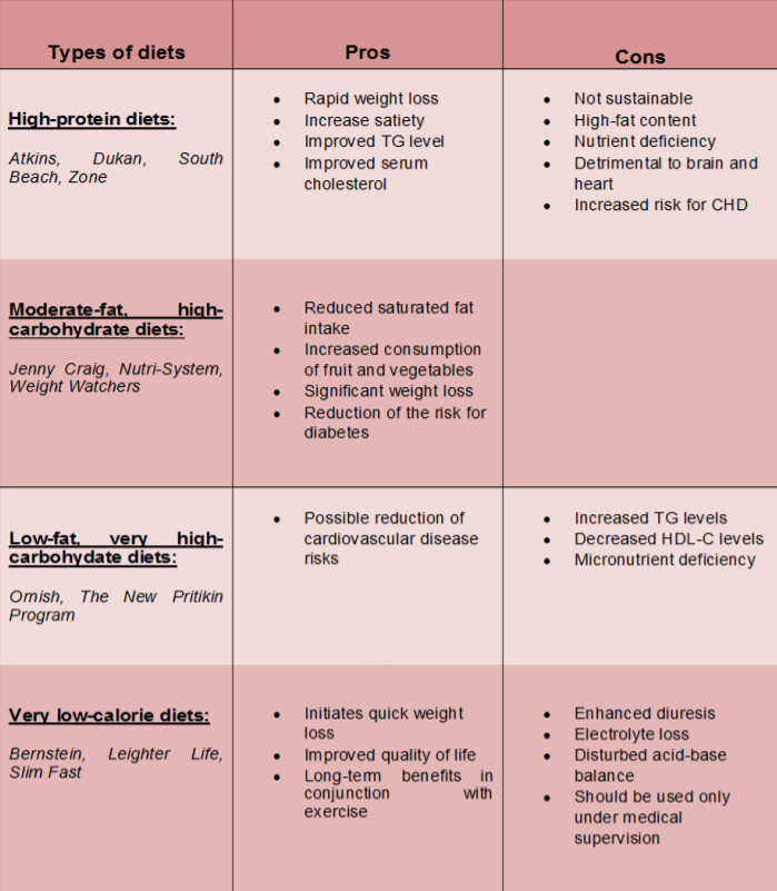 Fad diets short-term pros vs long-term cons From this research/review paper: [1].